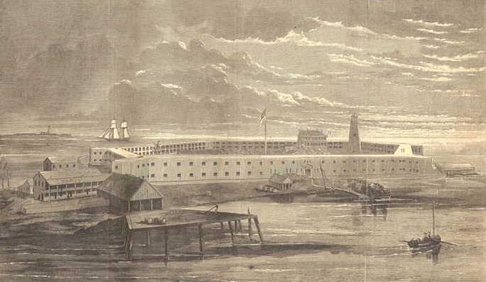 Illustration of Fort Jefferson, Dry Tortugas, Florida (Harper's Weekly, 26 August 1865, public domain).